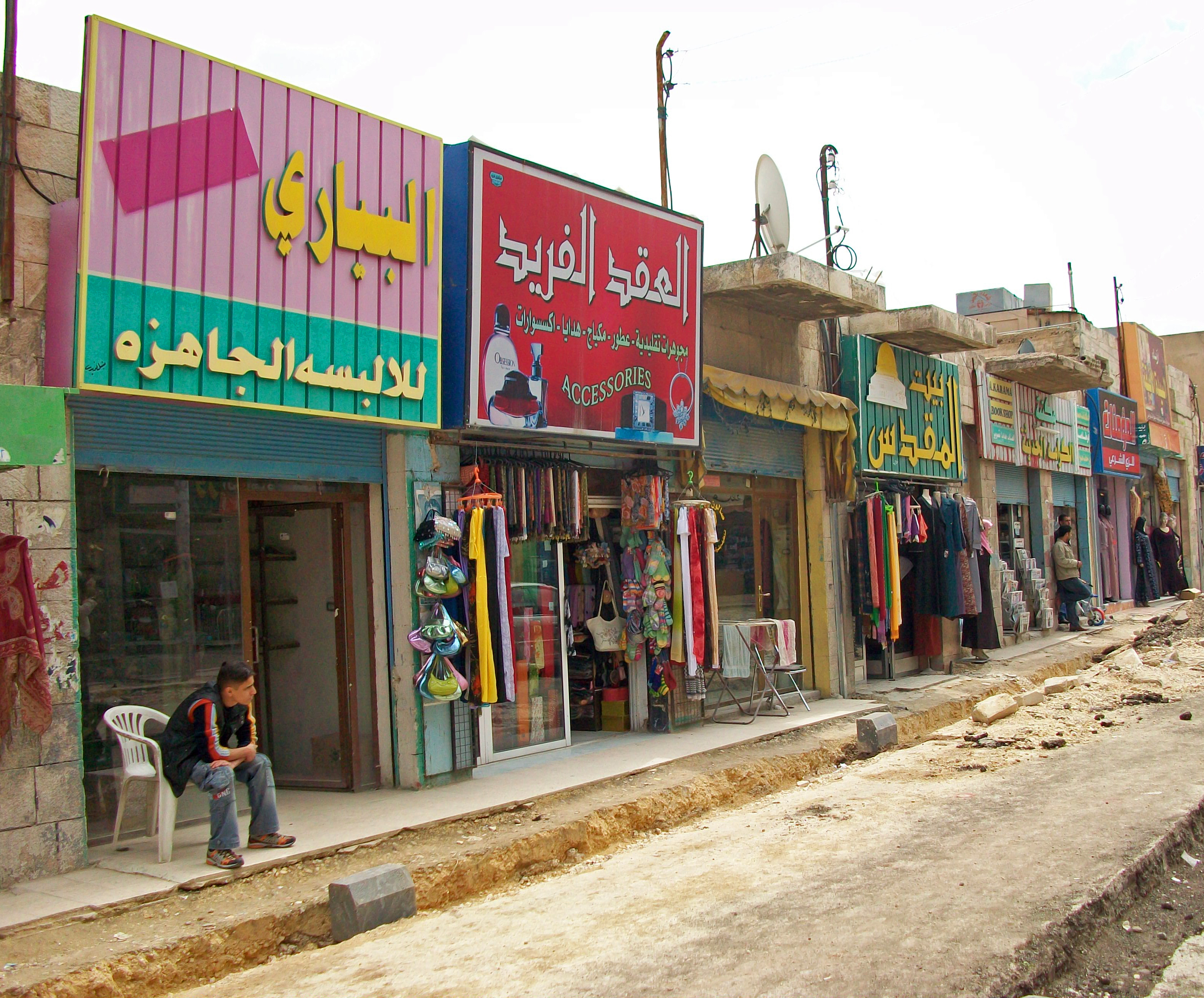 An "Arab street" in Madaba, Jordan